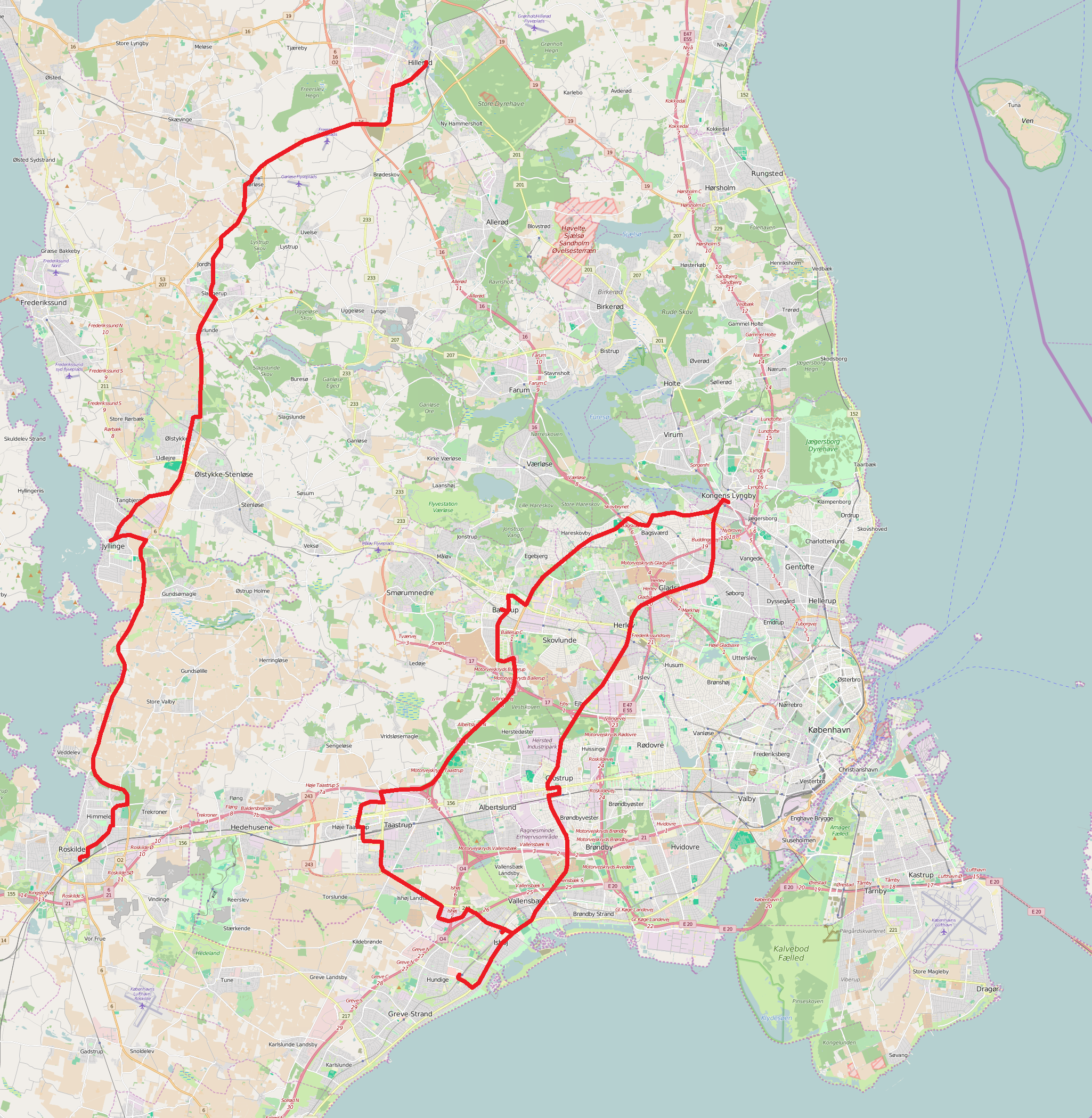 Map of the Copenhagen S-bus network as of October 1990 when it was opened. This map may be incomplete, and may contain errors. Don't rely solely on it for navigation.